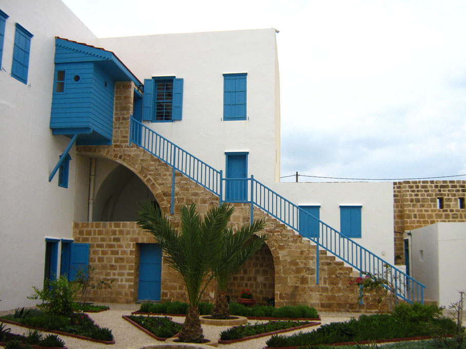 View of the courtyard inside the house of Abdu'llah Pasha, in Akká (Acre), Israel. Taken by me during a 9-day pilgrimage in November 2006.